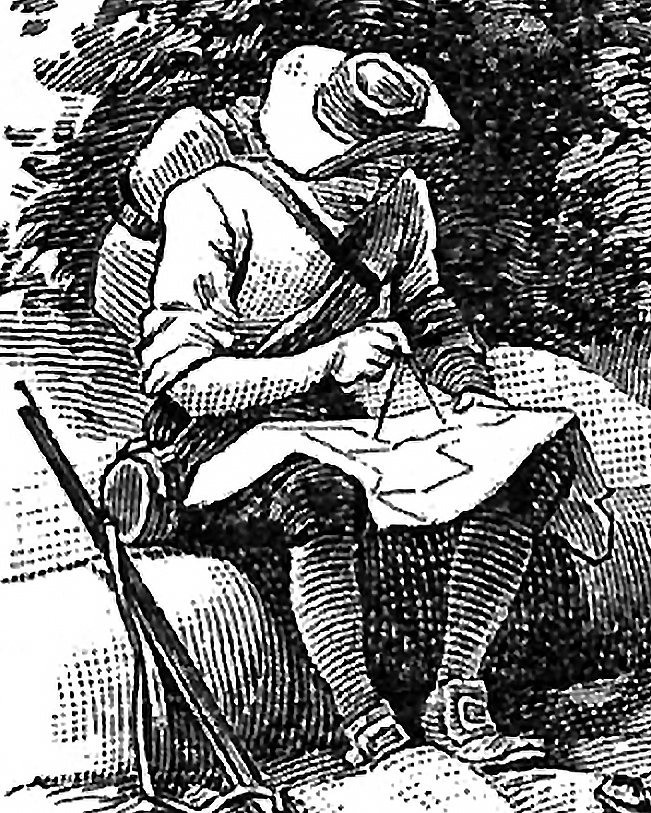 Cropped illustration of Charles Mason surveying the Mason–Dixon line, circa 1763–1768. (Neither Mason nor Dixon are clearly labeled as such, but this figure is positioned at left and is handling a map that may be Mason's "A Plan of the West Line or Parallel of Latitude". The illustration was created long after they were both dead, so the image is more a representation than an exact likeness anyway.)